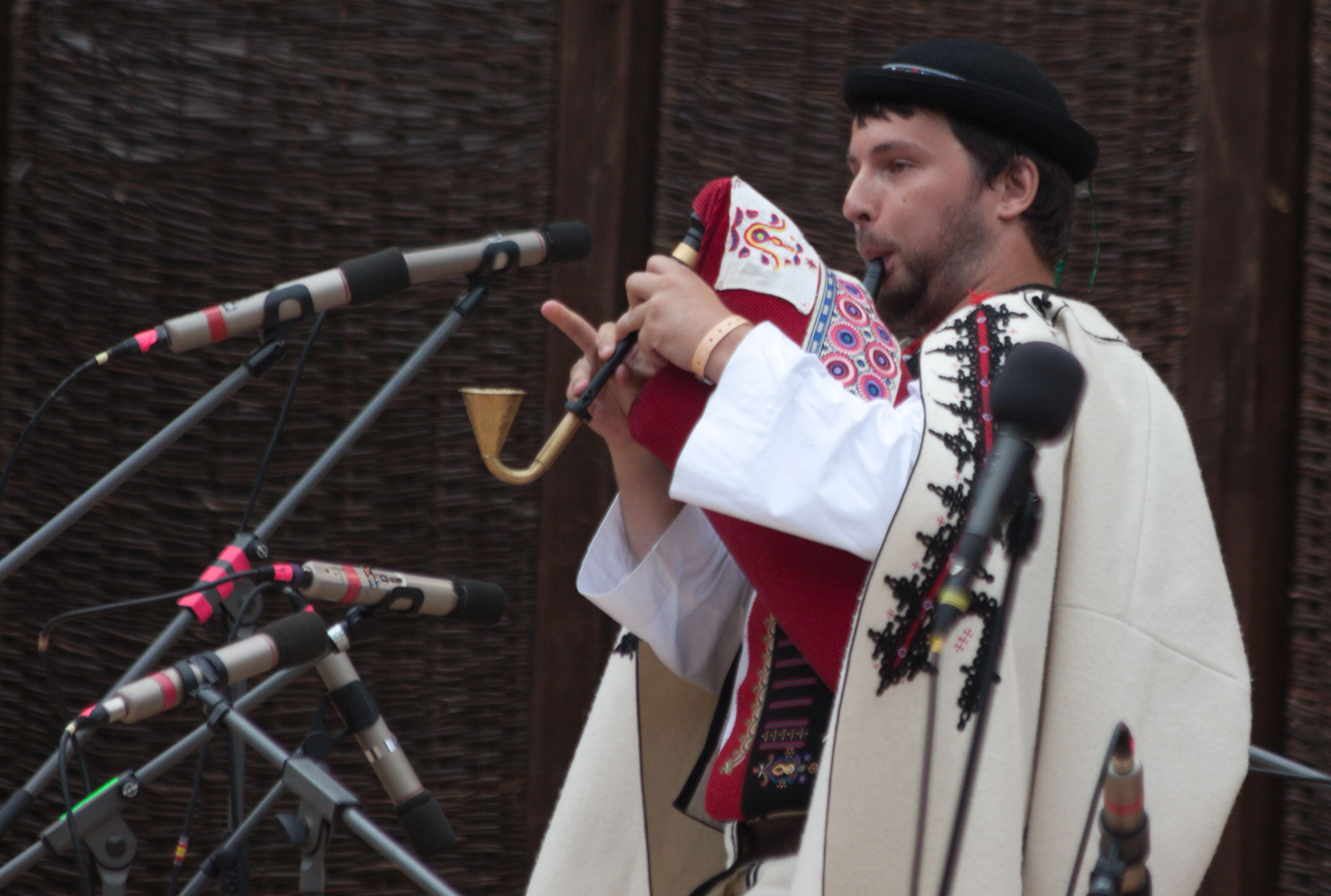 Bagpiper from Trencin on the stage. Carpathian Ethnography Project, Slovakia, third day, Myjava Festival 2017. Photo quality will be improved later.